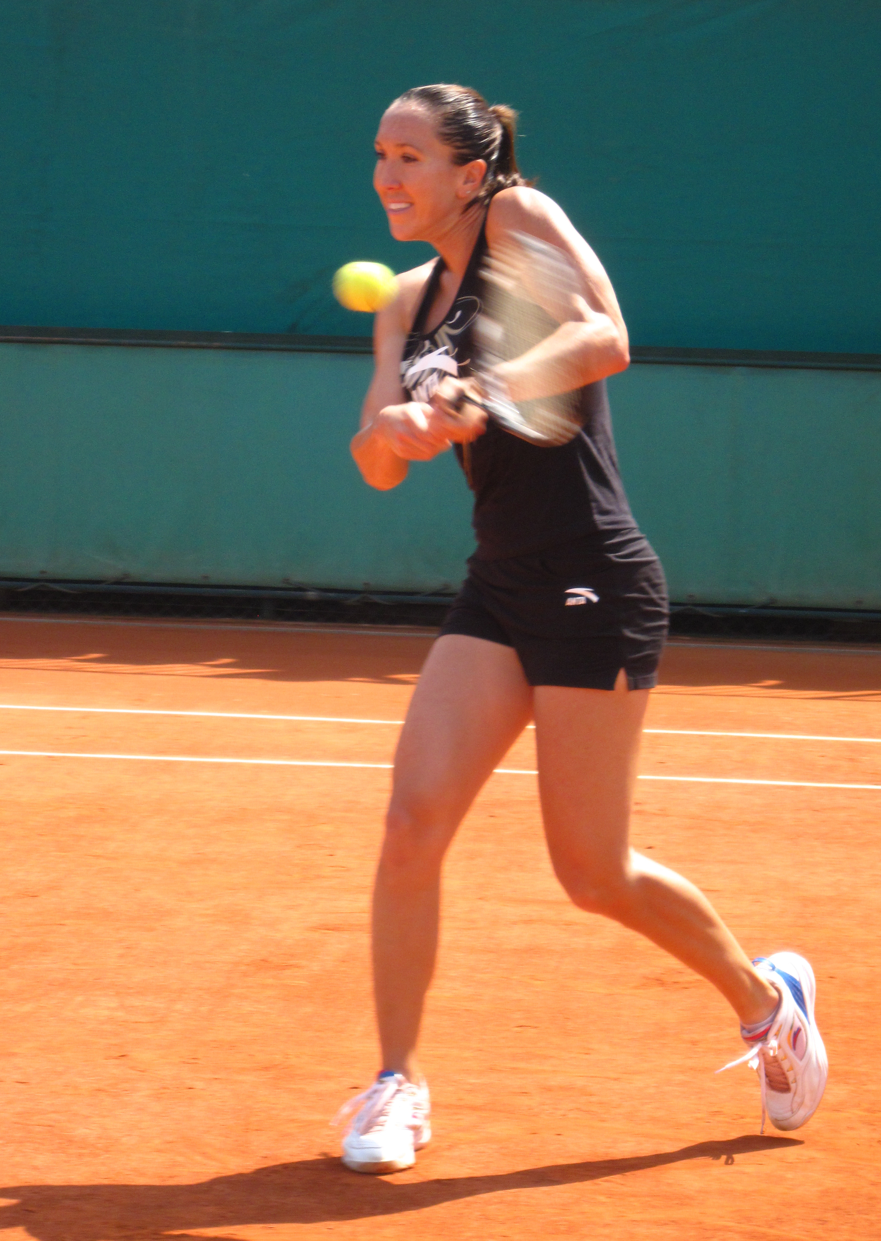 Jelena Janković at 2009 Roland Garros, Paris, France